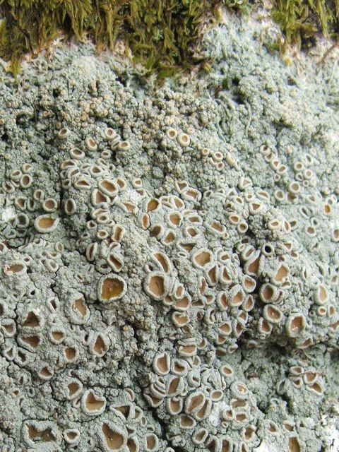 A lichen - Ochrolechia tartarea. The photo shows the northern side of the trunk of a large tree. It was mostly covered in moss; however, here, near the base, an extensive patch of lichen was growing. As can be seen from the top of the photo, it is overgrowing the moss on the tree, in the form of a fairly thick warted crust that is greenish in colour. The lichen is abundantly fertile, as indicated by the numerous spore-producing discs (apothecia) on its surface. These were conspicuously large: those seen in this photo were up to about 5 mm in diameter, but others were even larger. This is Ochrolechia tartarea; compare another species of the same genus: 988263 (as noted there, that species is usually infertile and reproduces asexually instead). In Scotland, from about the eighteenth century onwards, Ochrolechia tartarea was the principal ingredient used in making a red and purple dye called "cudbear" (after Cuthbert, the maiden name of the mother of the man who patented the process). These days, synthetic dyes are almost always used instead of lichen dyes; an important benefit of this change is that there is less damage to the lichen population: "Since lichens cannot be cultivated but must be collected from the wild, and their replacement by the growth of new lichens is exceedingly slow, it is evident that the use of lichens as dyes must be discouraged because of the large quantities needed. Cultivated flowering plants should be used instead" [Jack R. Laundon, in "Lichens" (Shire Natural History)]. The presence of this species reveals something about both the prevailing climate here, and the nature of the location: this species is "common on trees, rocks and mosses in high rainfall areas, mostly in exposed upland regions" [Frank S. Dobson, in "Lichens - An illustrated guide to the British and Irish species"]. Appropriately, then, the tree stands near a footpath that is called the Upland Way: 996220.